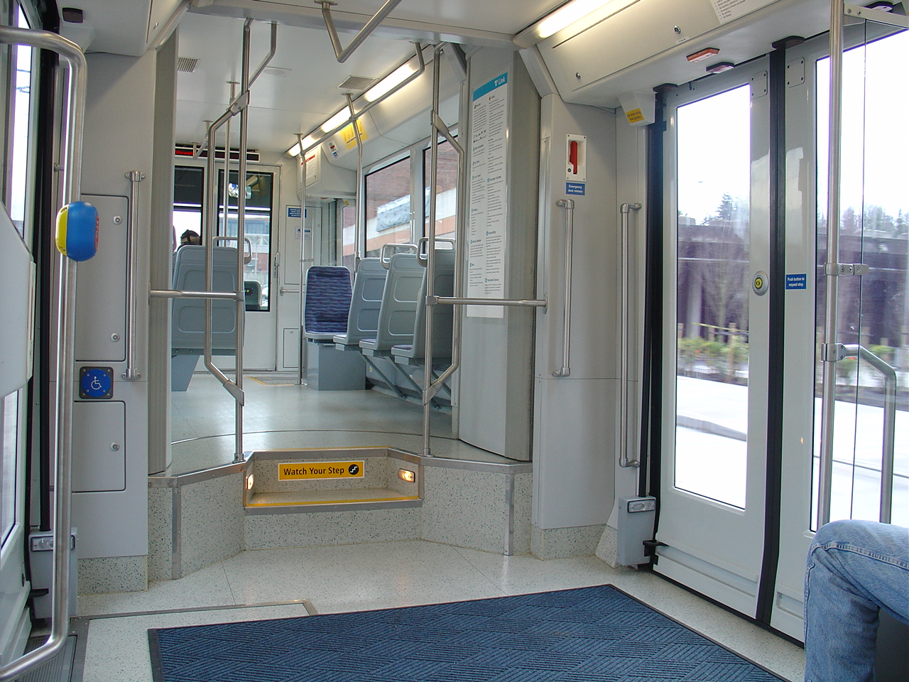 Interior of a Tacoma Link streetcar